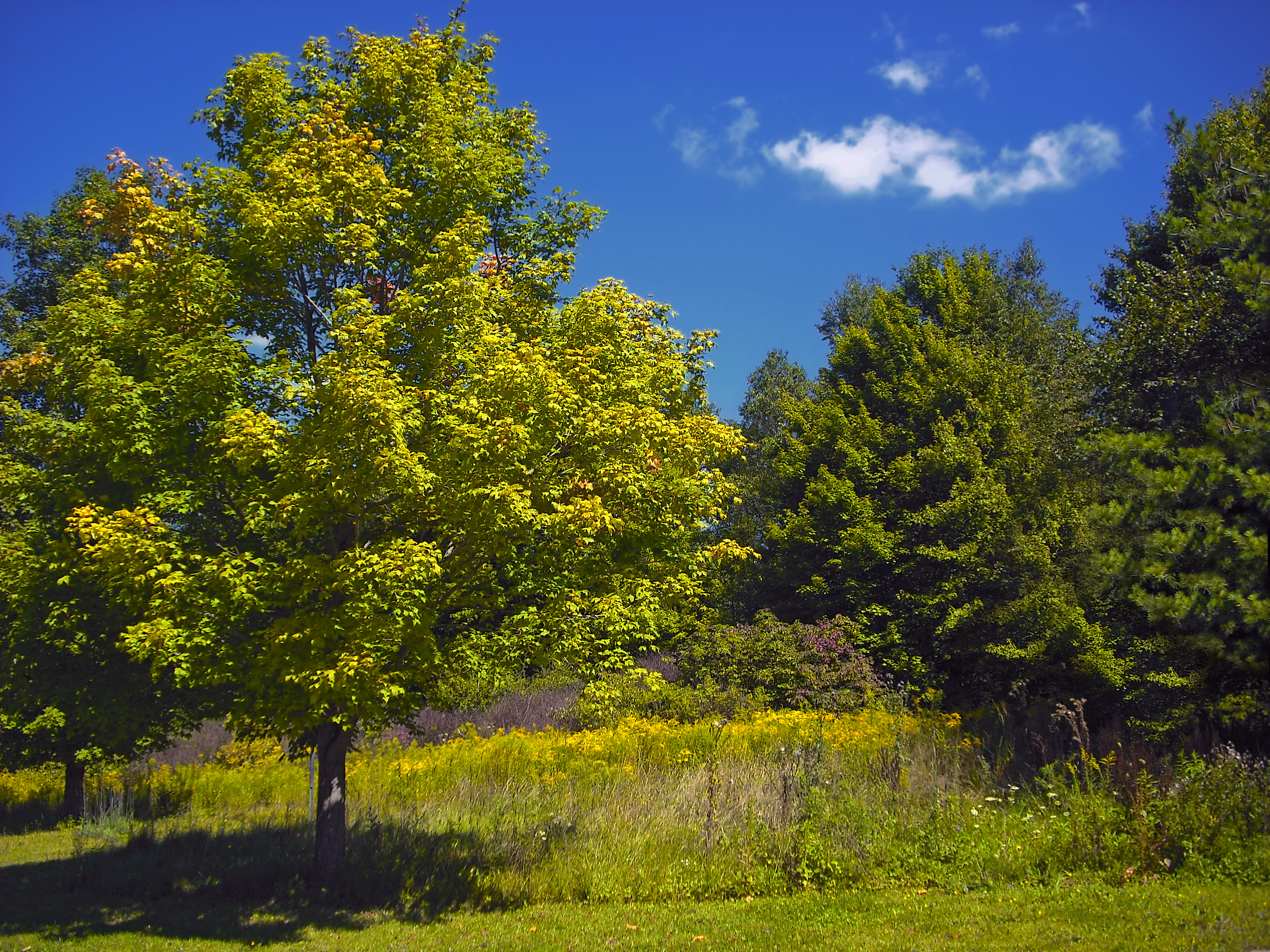 Midday light, State Game Land 122, Crawford County.